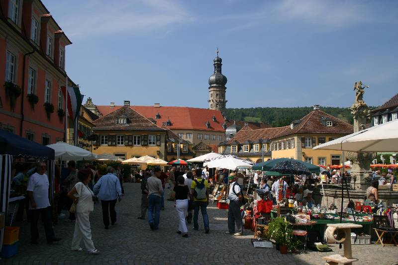 Marketplace of Weikersheim.